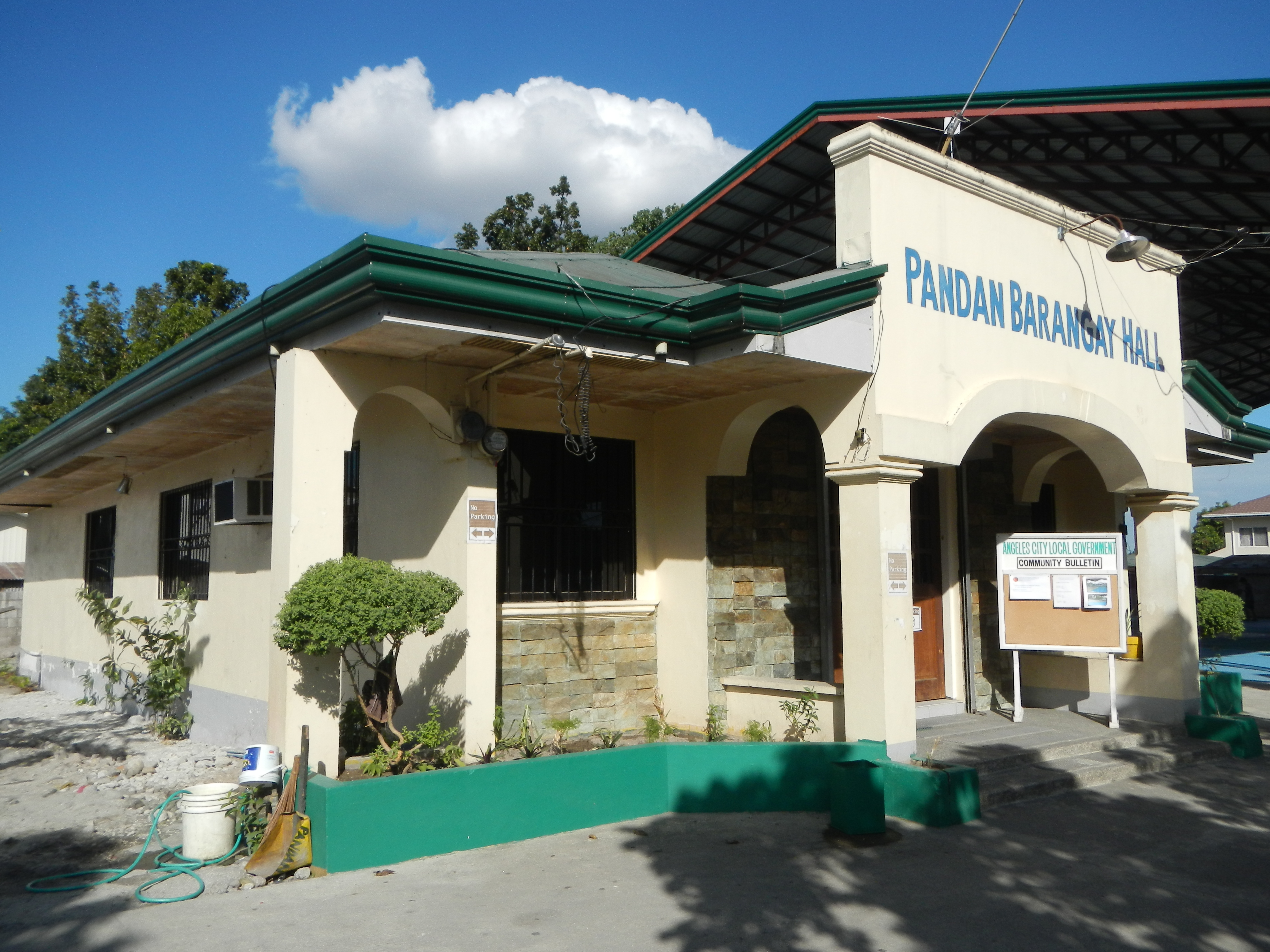 Upload Wizard photos of Barangay Pandan, Angeles[1] City, Pampanga, the Official Seal and Logo, the Flag Seal, the Barangay Hall, and the Flag Seal of Angeles City, all in the Barangay Hall.